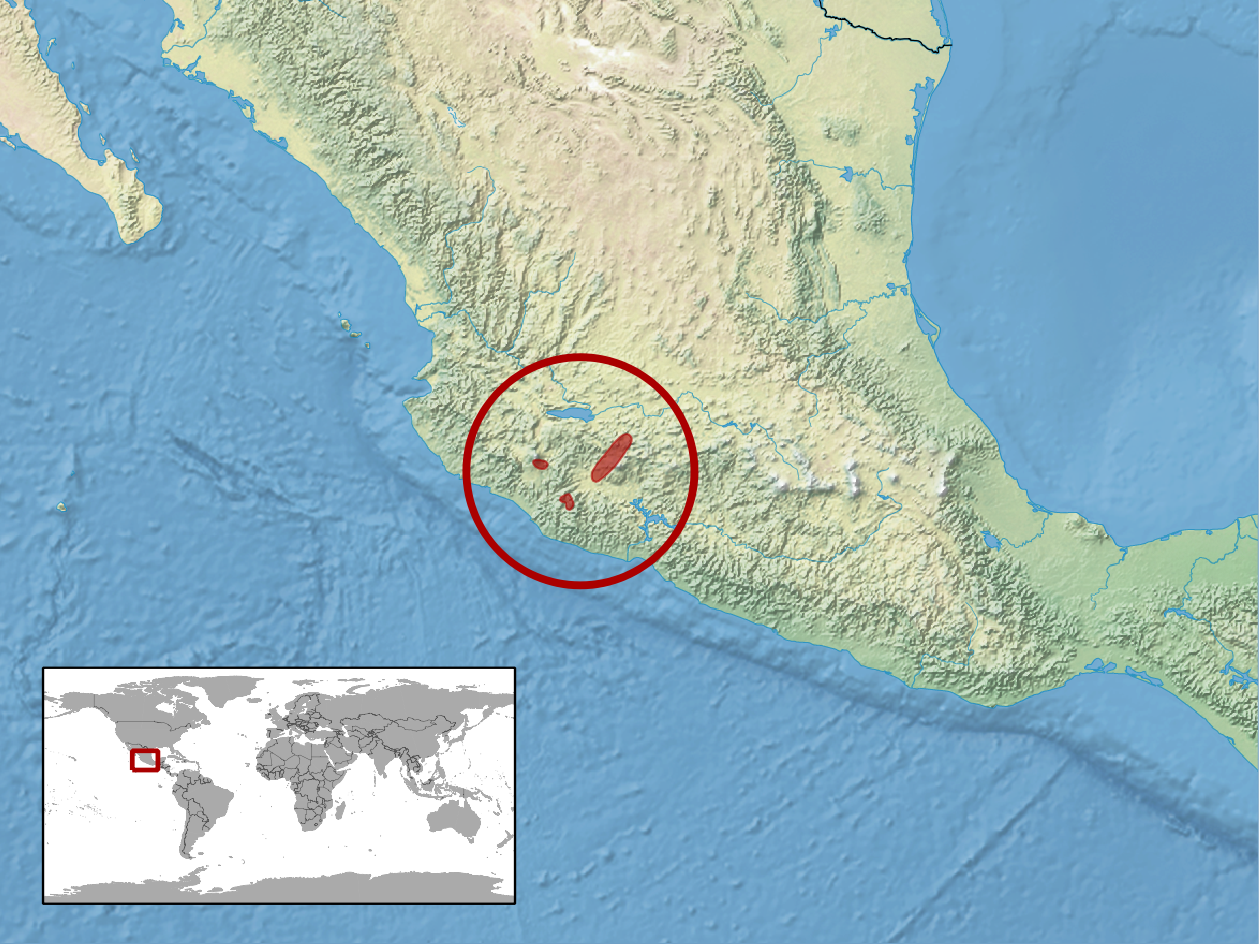 geographic distribution of Crotalus pusillus (Native: Mexico)